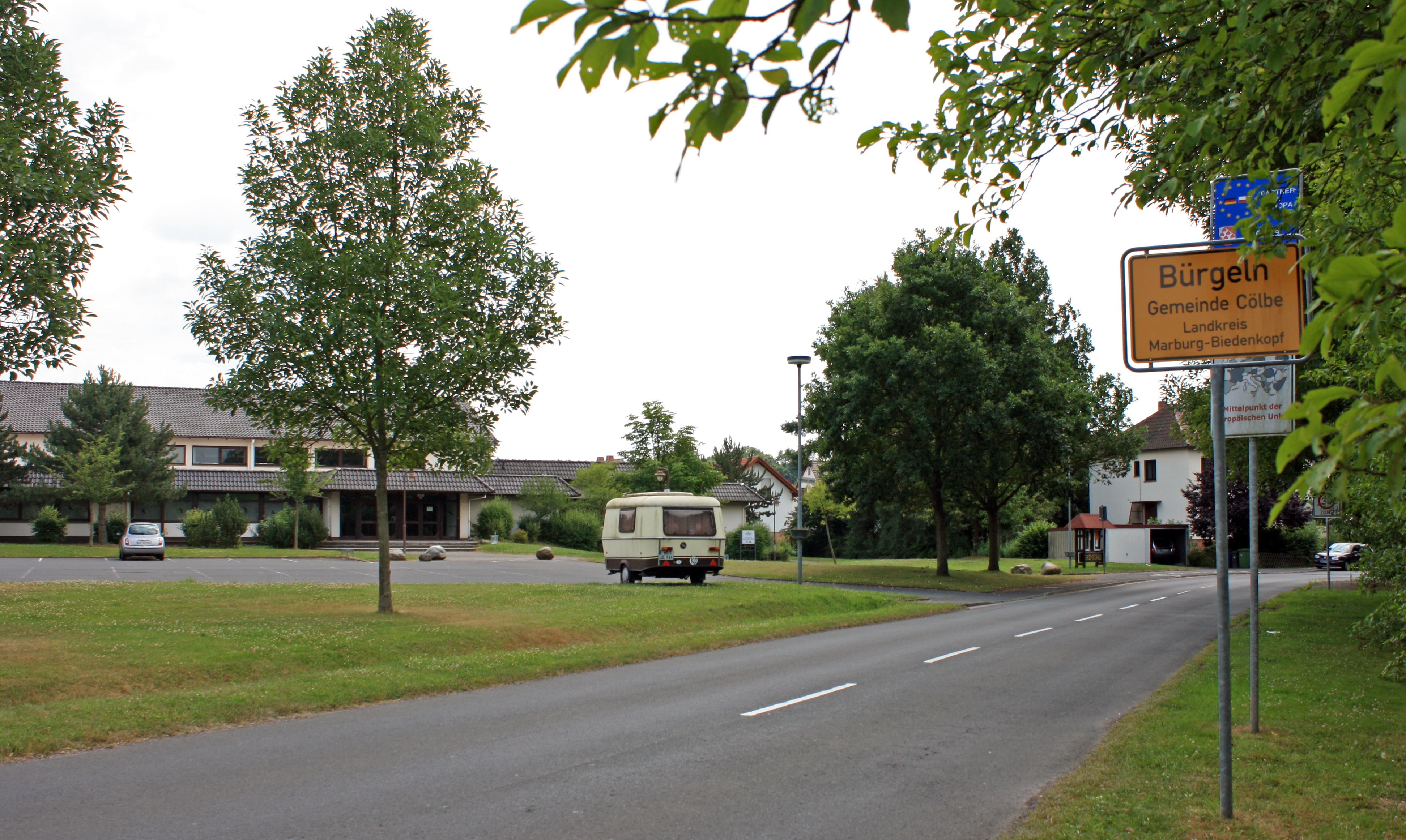 Northern village entry of Cölbe-Bürgeln